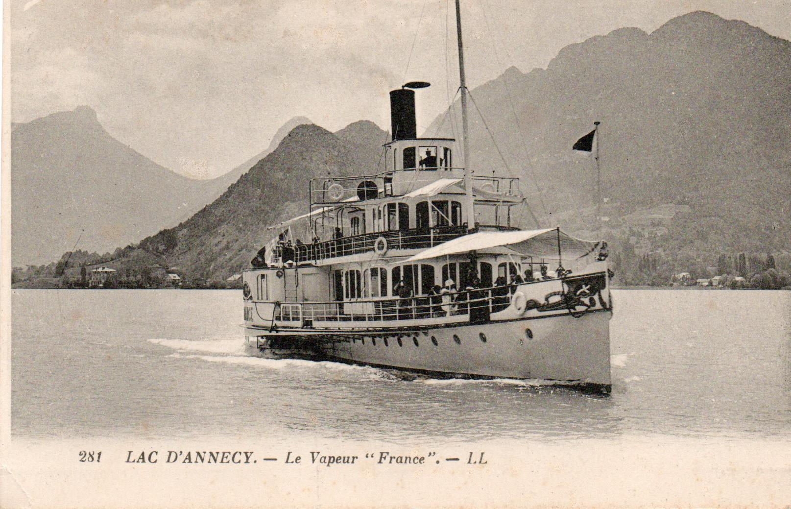 Paddle steamer « France » on Annecy lake (Haute-Savoie - France) - vintage postcard - personal collection